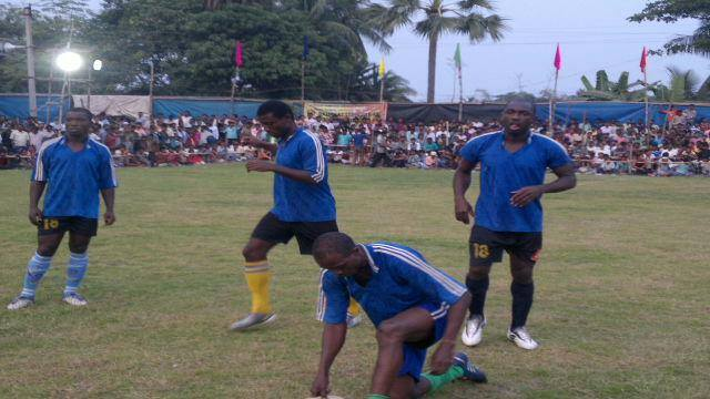 Football match in jhuruli